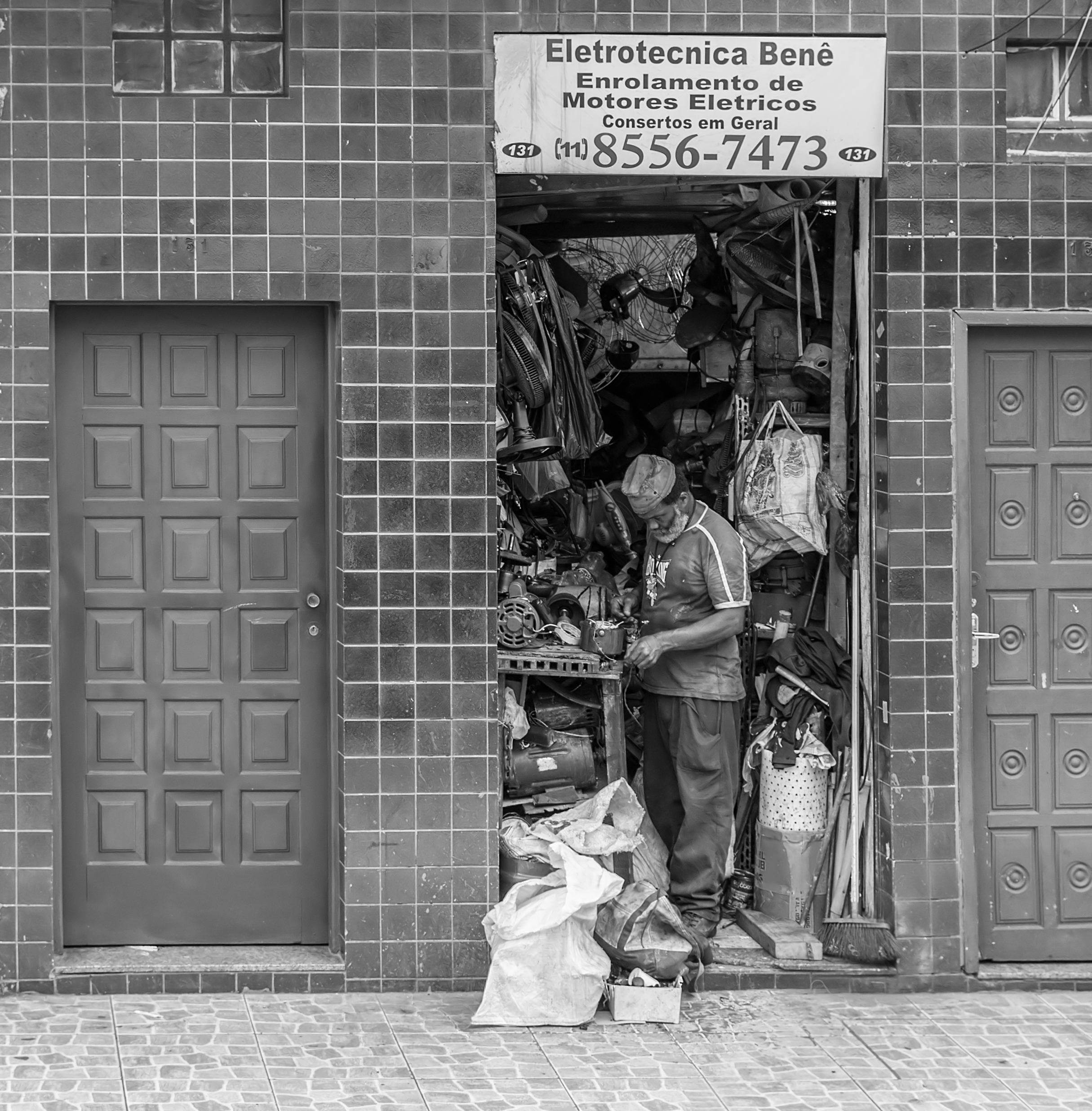 Electrician worker in São Paulo city, Brazil